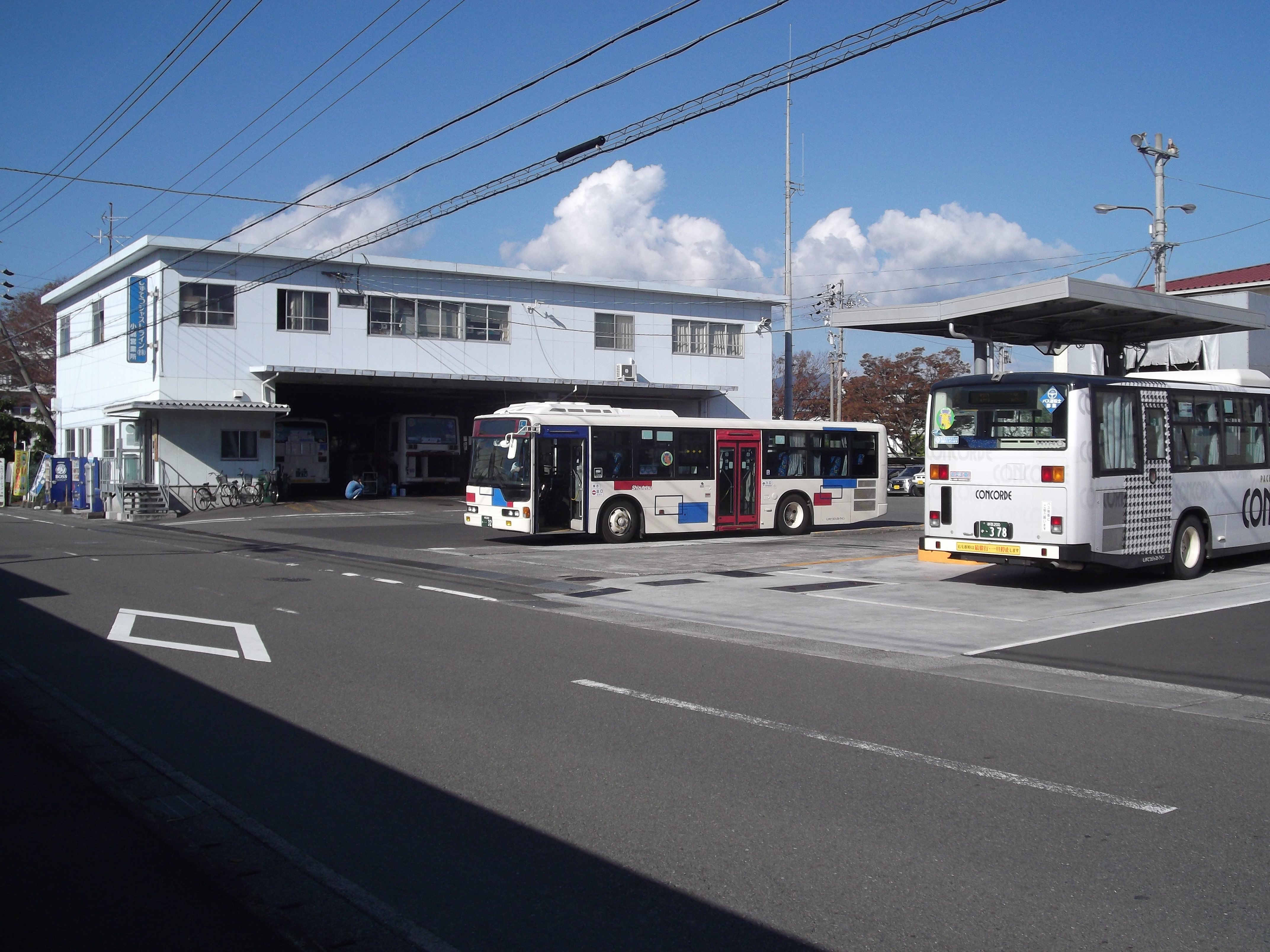 Shizutetsu Justline Oshika Depot